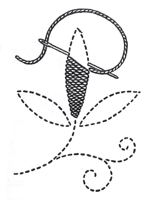 The satin stitch